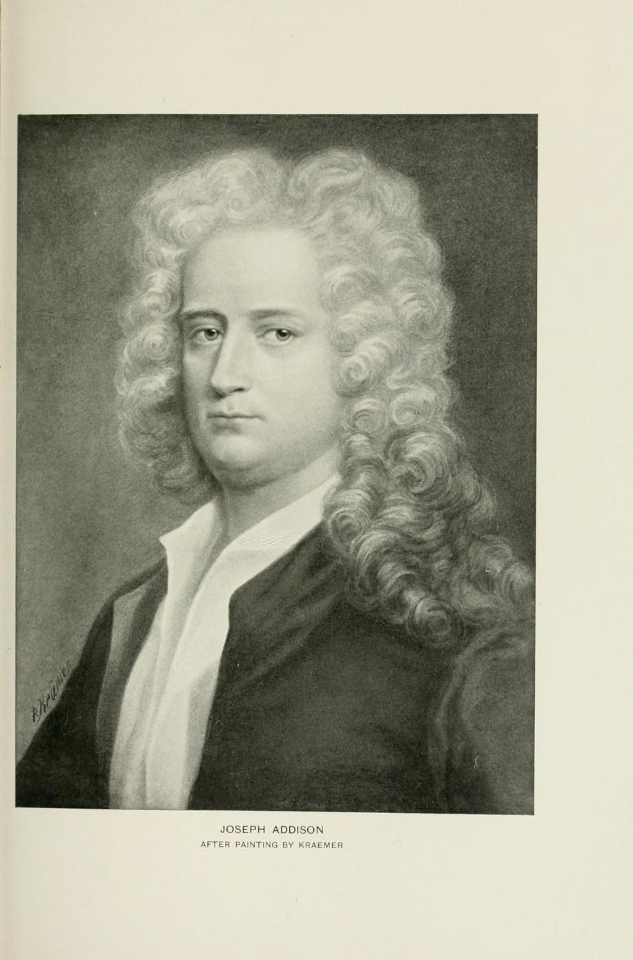 Joseph Addison by Kraemer from the New International Encyclopedia